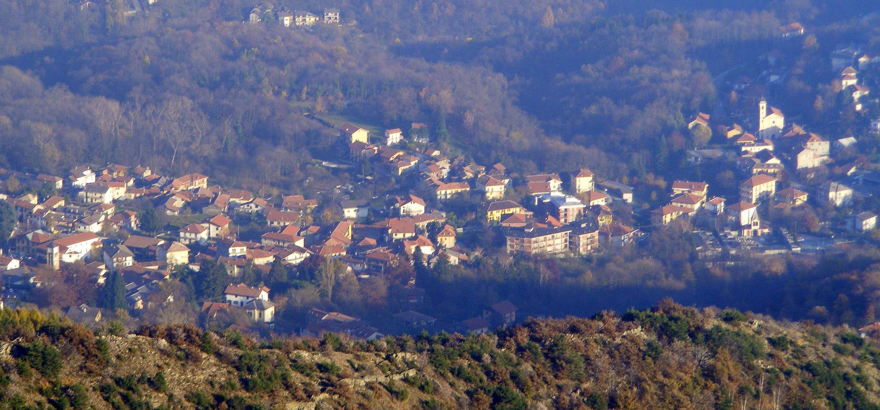 Rubiana (TO, Italy) seen from eastern slopes of mt. Roccasella